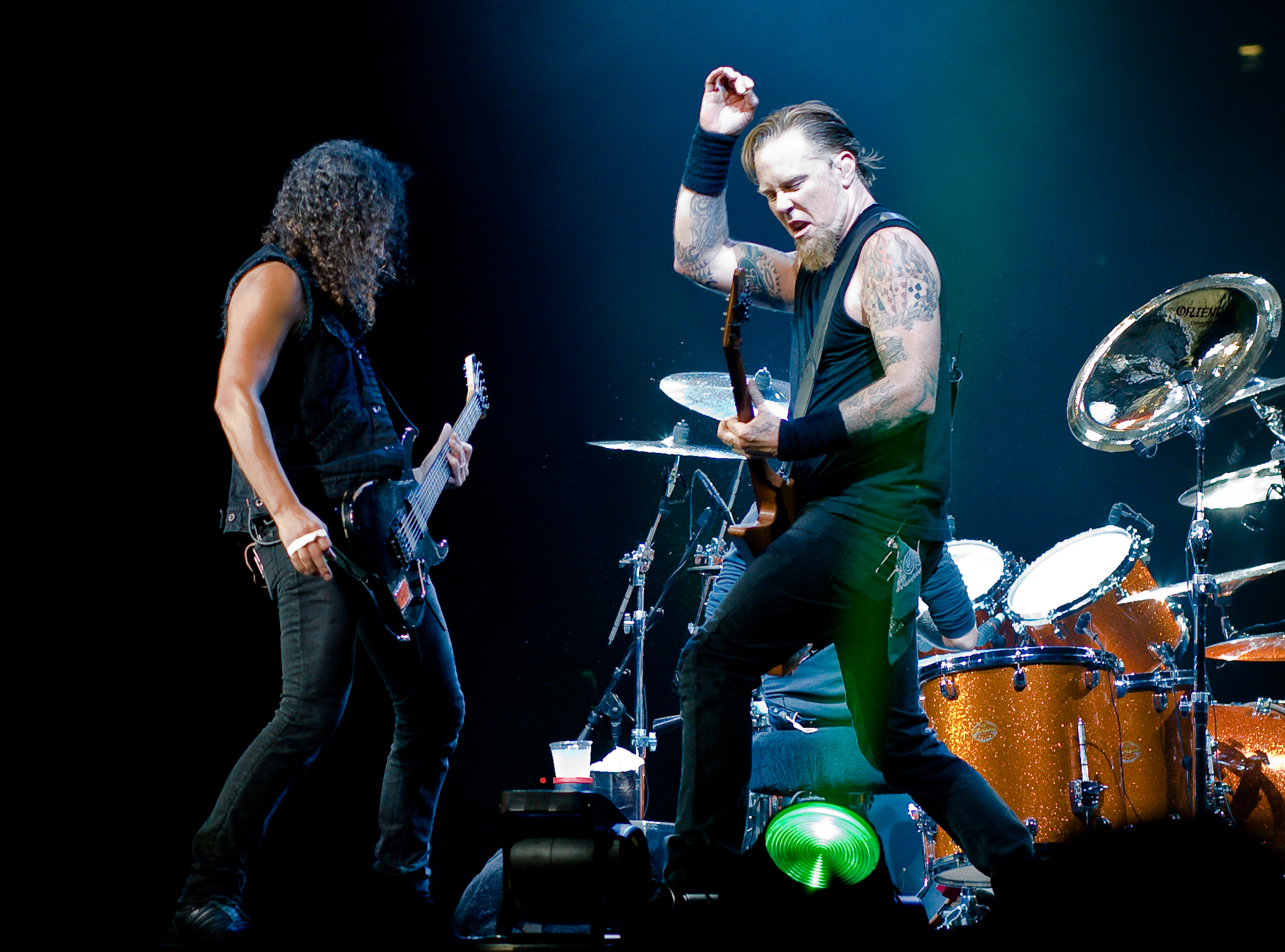 Kirk Hammett and James Hetfield playing at Metallica show at The O2 Arena, London, England